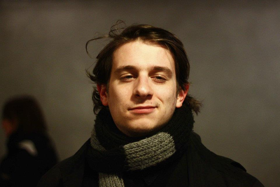 Martin Macháček na zlínském vinohradu.